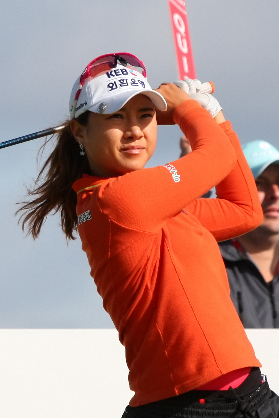 ST ANDREWS, SCOTLAND – AUGUST 04: Park Hee-Young of South Korea watches her tee shot on the 15th hole during third round of 2013 Ricoh Women's British Open held at St Andrews Old Course on August 4, 2013 in St Andrews, Scotland. (Photo by Wojciech Migda)